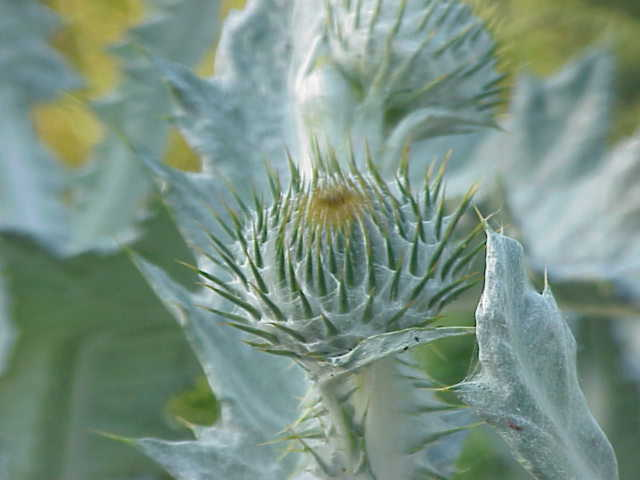 Species: Onopordum acanthium (file name misleading!) Family: Asteraceae Image No. 1